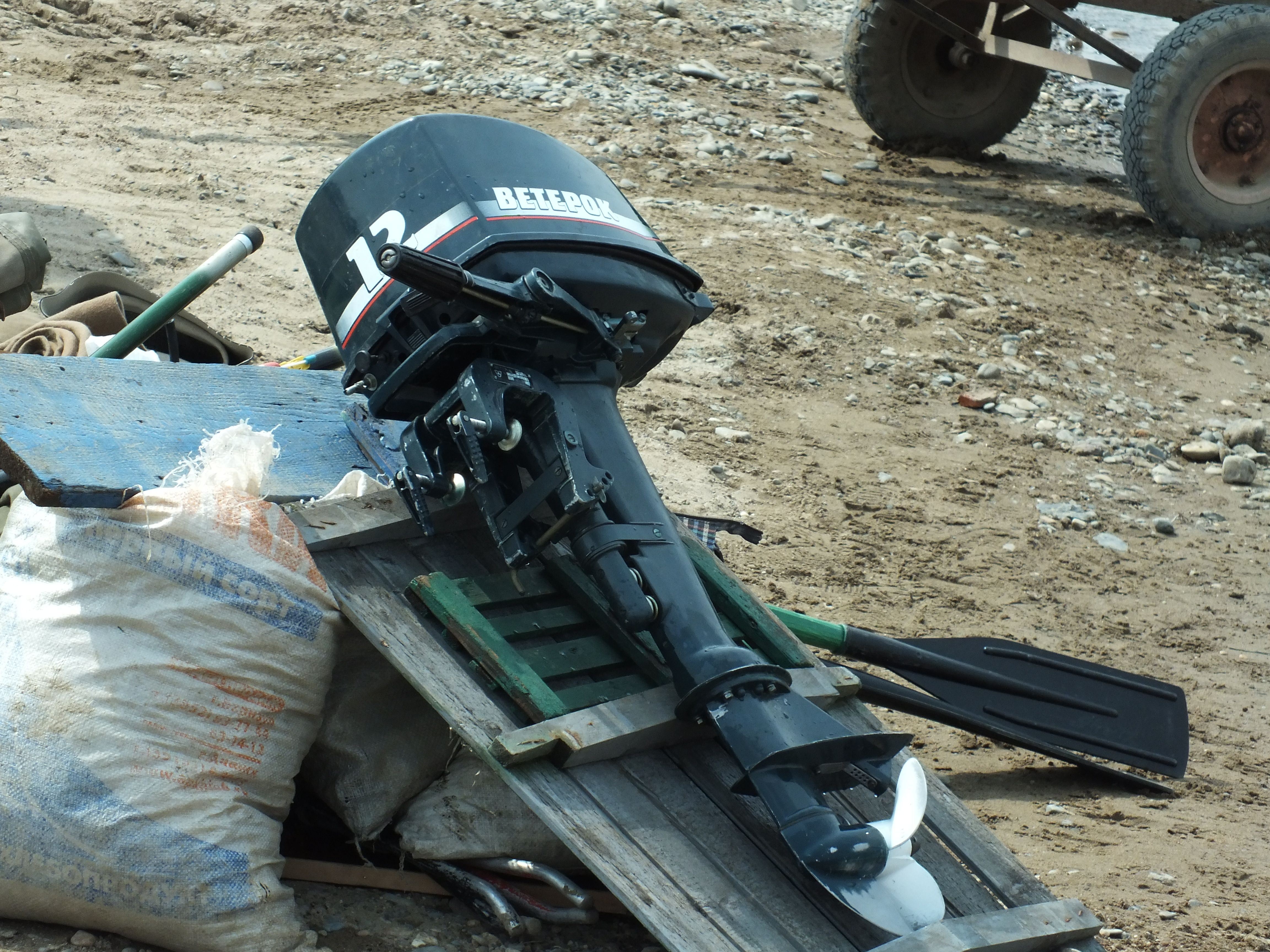 Outboard motors